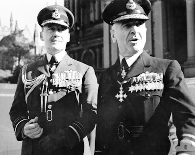 AWM Caption: Air Marshal Sir Donald Hardman, Chief of Air Staff (left), and Air Vice Marshal J P J McCauley CB, CBE, Air Officer Commanding Eastern Area, watch members of 78 Fighter Wing RAAF march past Sydney Town Hall. The Wing departed that day for garrison duties in Malta.